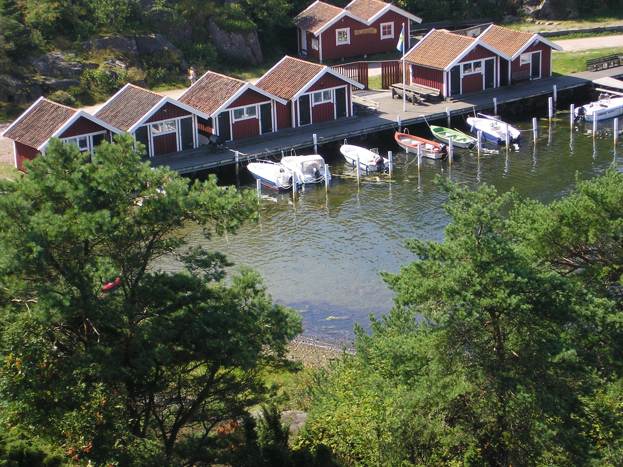 Beach and harbour, Fågelviken (Härnäset, Bohuslän, Sverige).